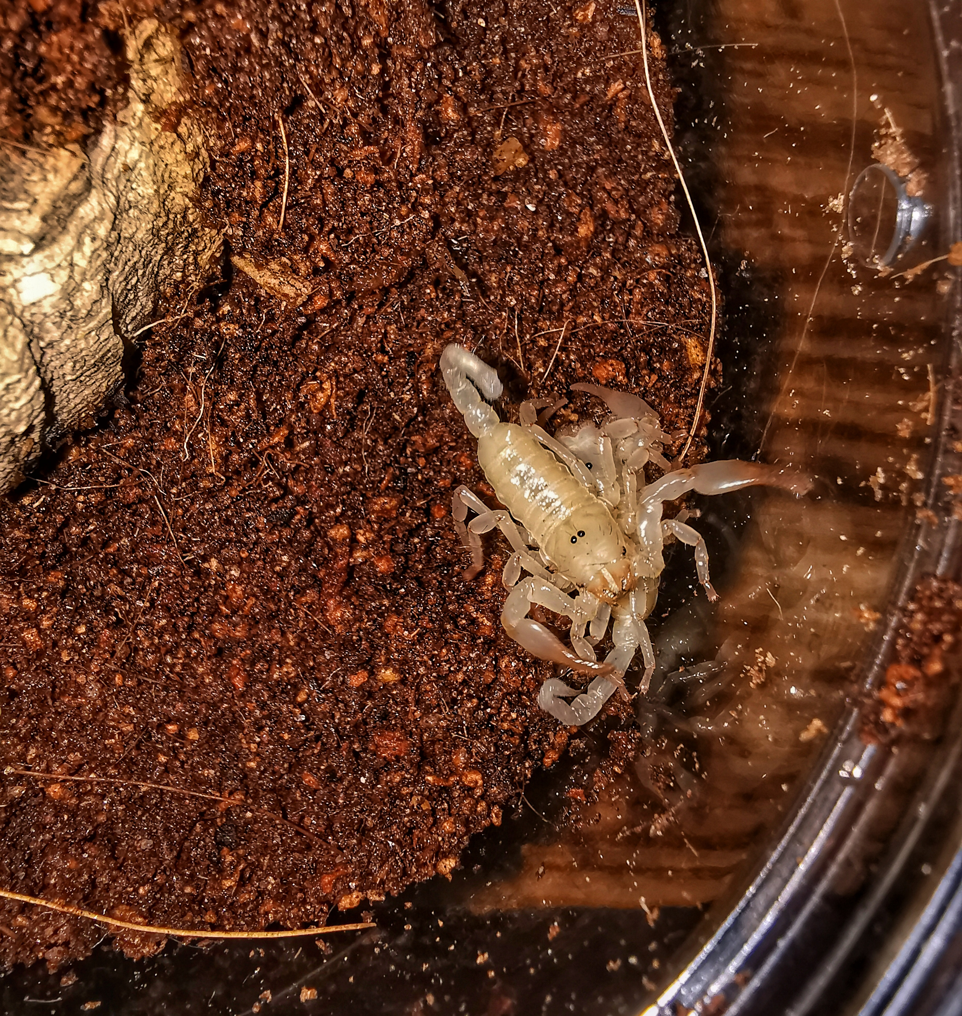 Notice the redness in the scorplings claws, this is a way to tell them from Asian Forest scorpion babies.